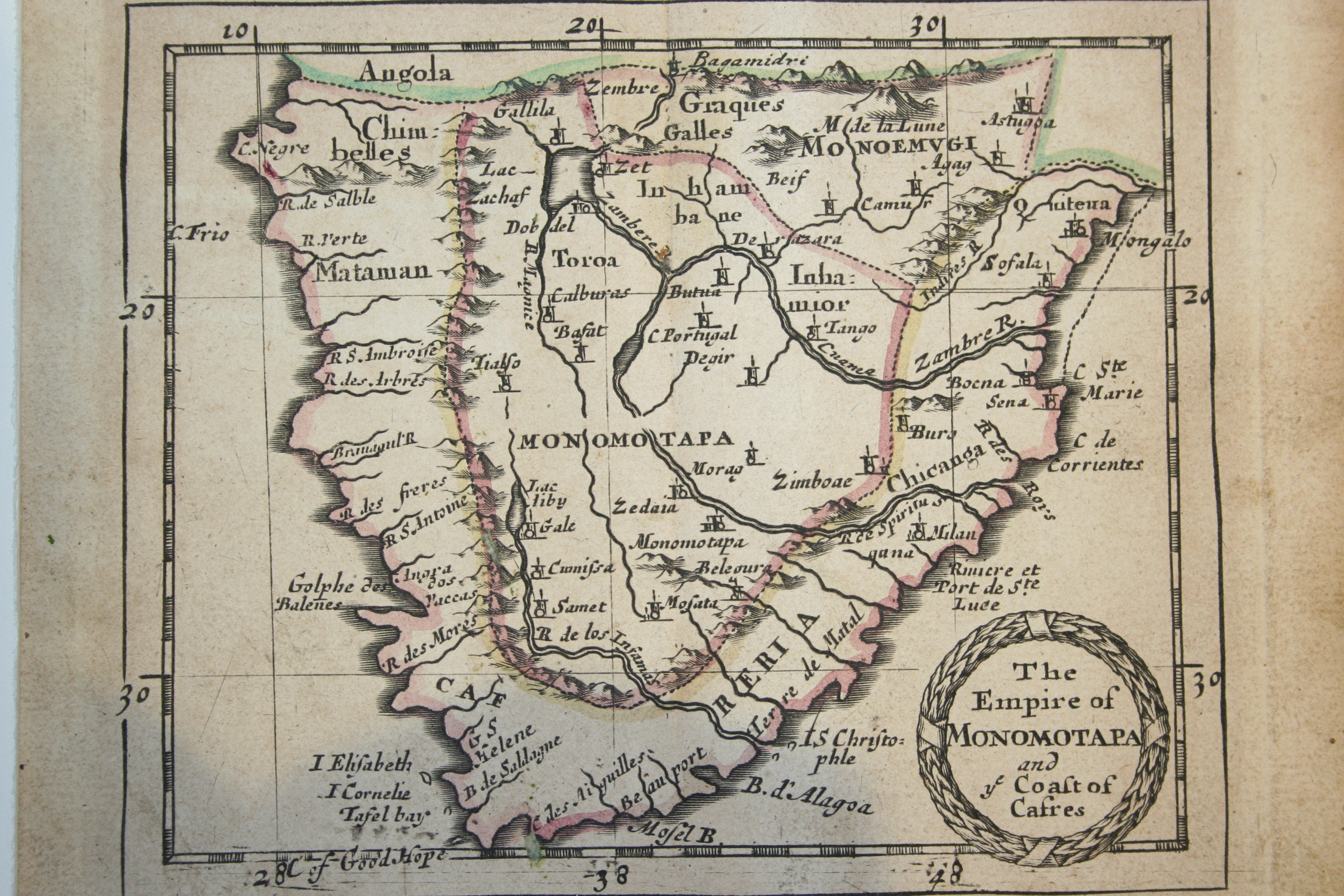 A Portuguese map from what I think is the late 1500s/early 1600s of the Southern Coast of Africa and South Africa in particular. Picture is uncropped and of the whole map.